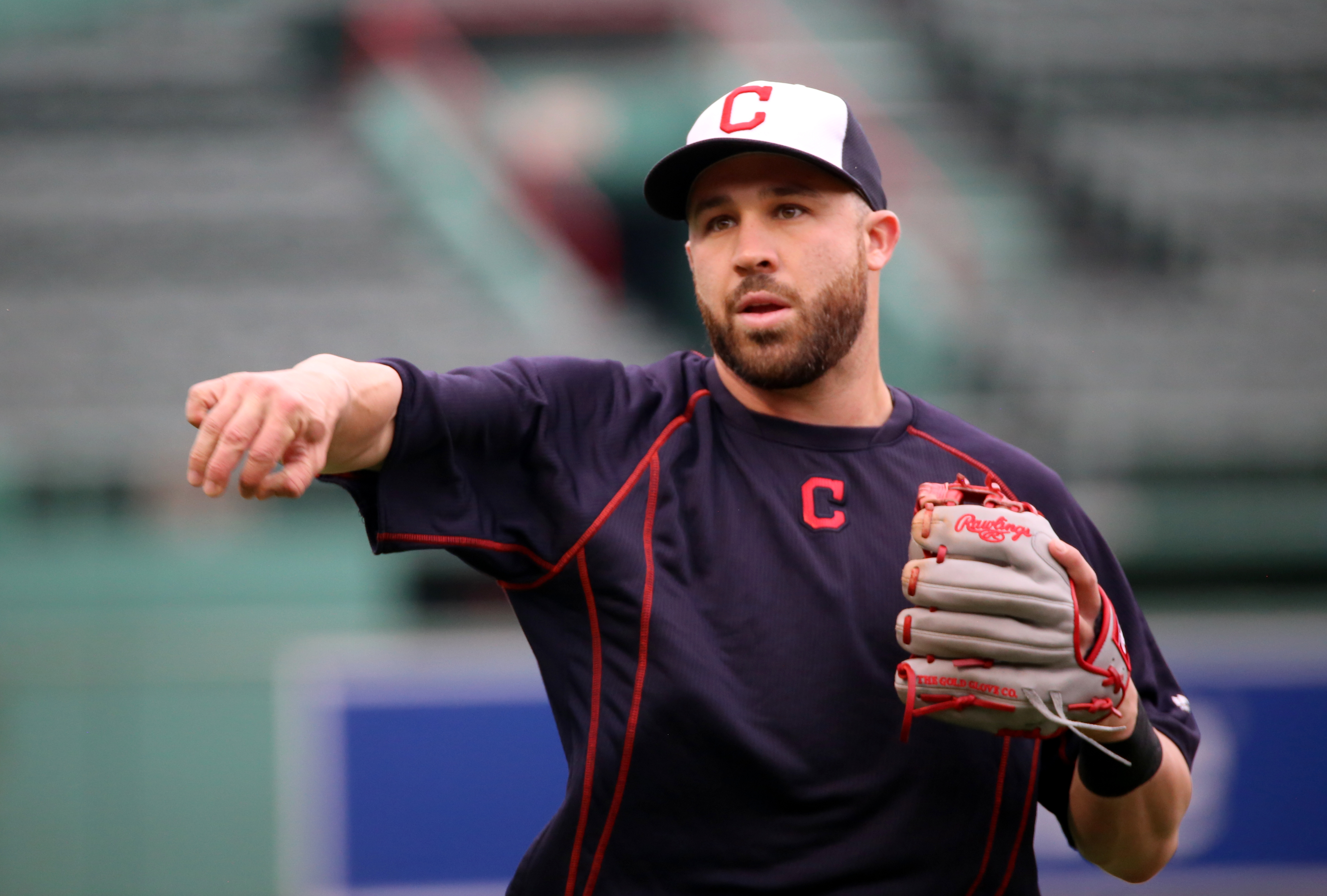 Indians second baseman Jason Kipnis works out at Fenway Park.